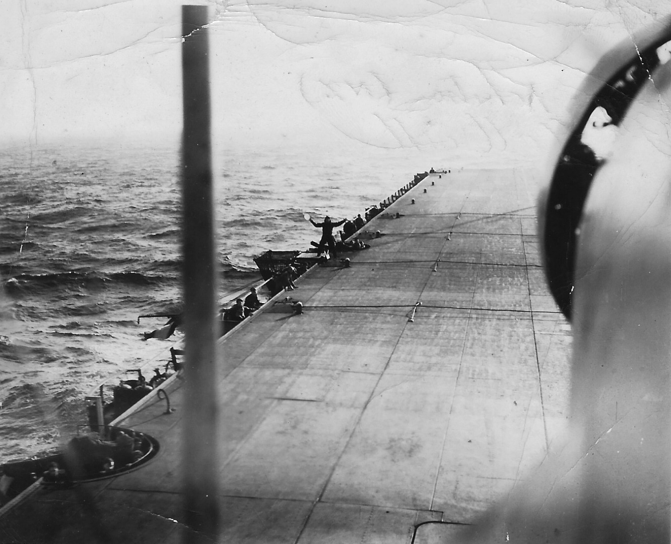 Take from a swordfish biplane while landing on the deck of the Empire MacKay in the north Atlantic